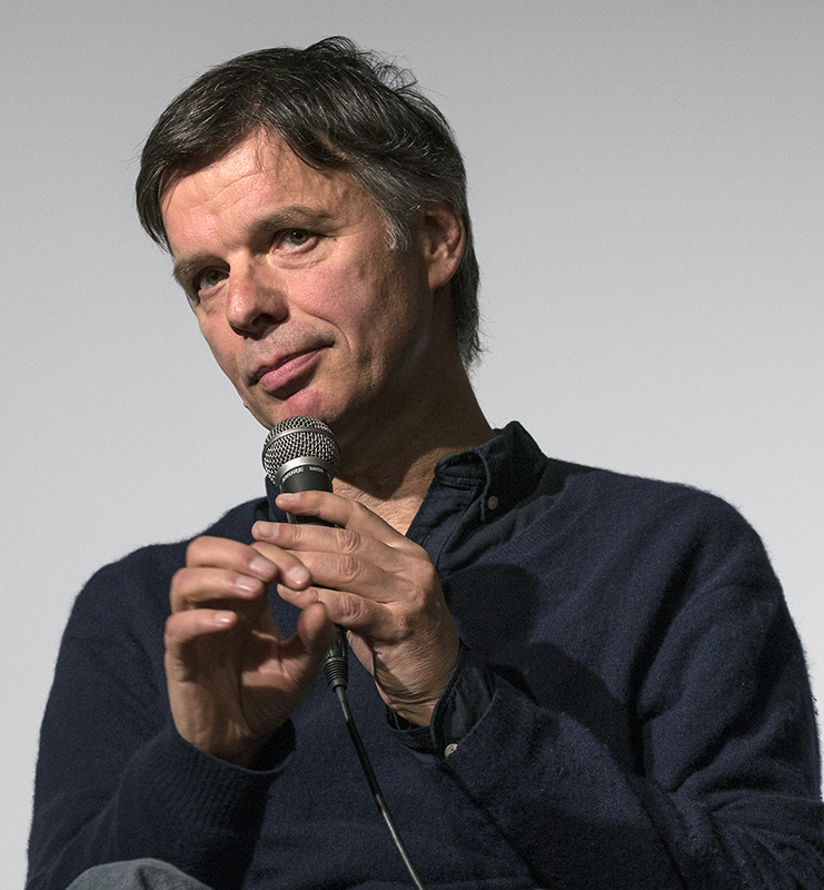 Karl Lippegaus, journalist from Cologne